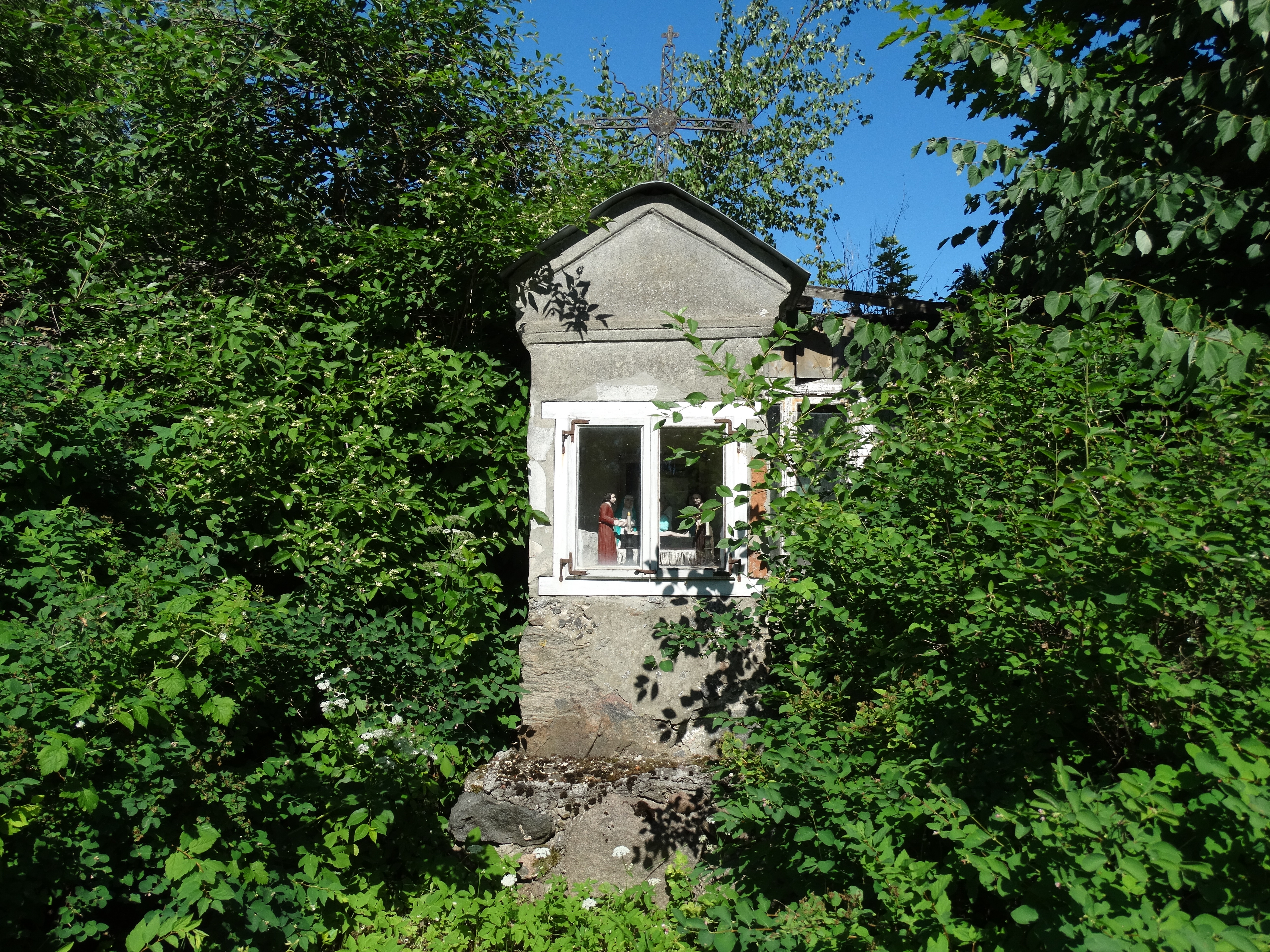 Grajauskai, Raseiniai district, Lithuania